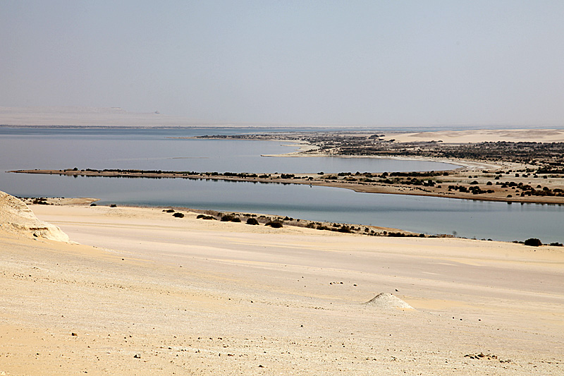 Northwestern shore of the southern lake in the Wadi el-Raiyan (Wadi el-Rayyan), Egypt